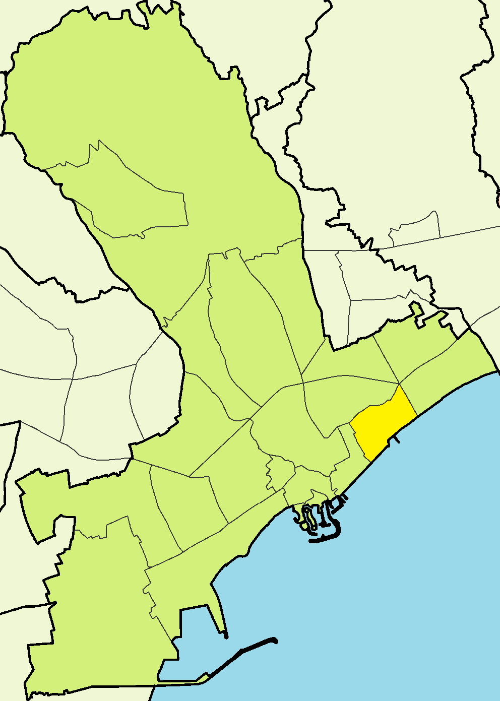 Agia Trias in Limassol Municipality.